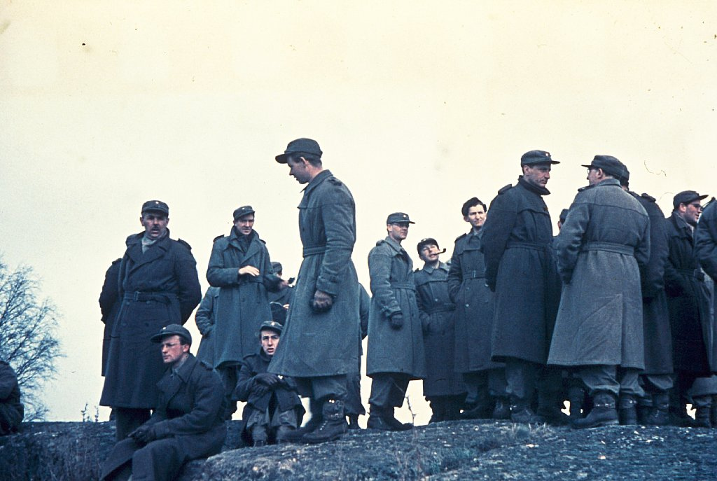 Soldiers of the Free Danish Brigade from Sweden